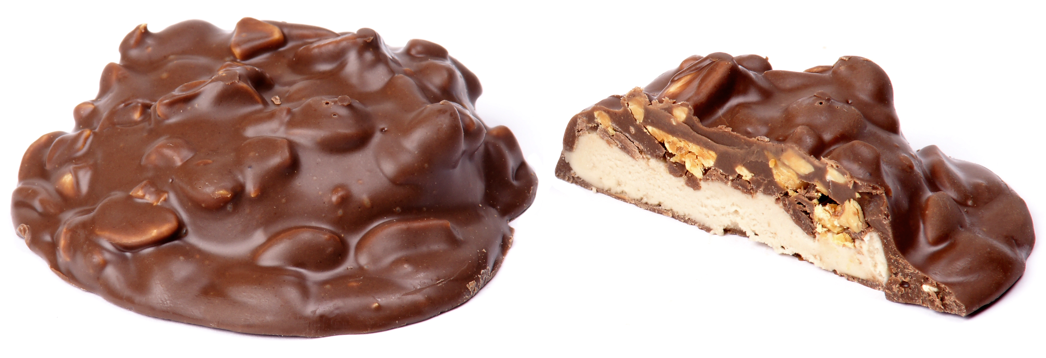 A Pearson's Nut Goodie, shown whole and also split. Candy was provided from the Pearson's Candy Company to Evan-Amos for the direct purpose of adding pictures to the Wikipedia articles.